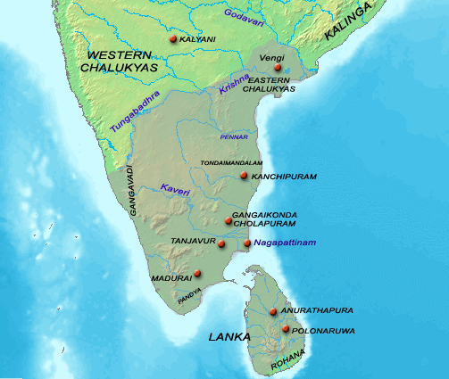 Map showing the extent of the Chola empire during Rajaraja Chola I.